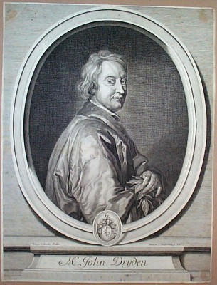 Portrait of John Dryden (1631-1700) by Gérard Edelinck after Godfrey Kneller (1646-1723)